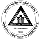 Official seal of the Eureka Union School District.